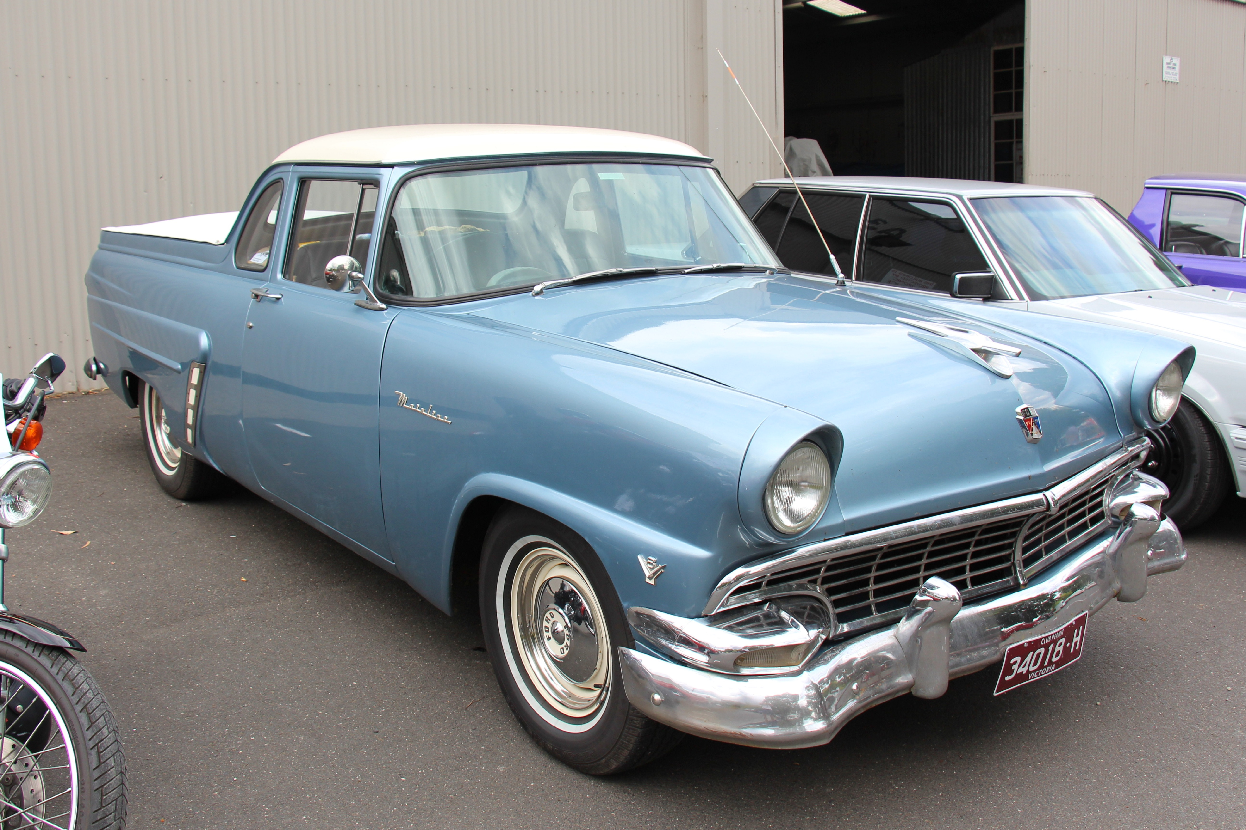 Like the earlier 1952-54 US Fords, the newer shape 1955-56 Fords were also assembled and sold in Australia, models available in Australia were: the V8 Customline, a 4 door sedan and the V8 Mainline, a coupe utility, the ute, Australias own design, used the chassis of the US 2 door convertible. A limited number of Customline wagons were also built. When the US got a new shape in 1957, Australian built cars continued on with the 55-56 shape until 1959, with minor facelifts each year. The 1955 model featured the 1955 US Customline grille The 1956 model featured the 1956 US Customline grille The 1957 model featured a large V8 badge in the grille. The 1958/59 model used the 1955 Canadian Meteor grille with a four-pointed star and 1956 Meteor side trim, this, the final series, known as the Star model was available in two models, the Customline and the Fordomatic. Engines; From 1955-57 162hp 272 Y block V8 and from 1958, 193hp 292 Y block V8. Models in the US were; the base Mainline, mid Customline and top Fairlane, which included the Sunliner Convertible, Victoria Hardtop, Crown Victoria Hardtop and Ranch and Country Wagons.